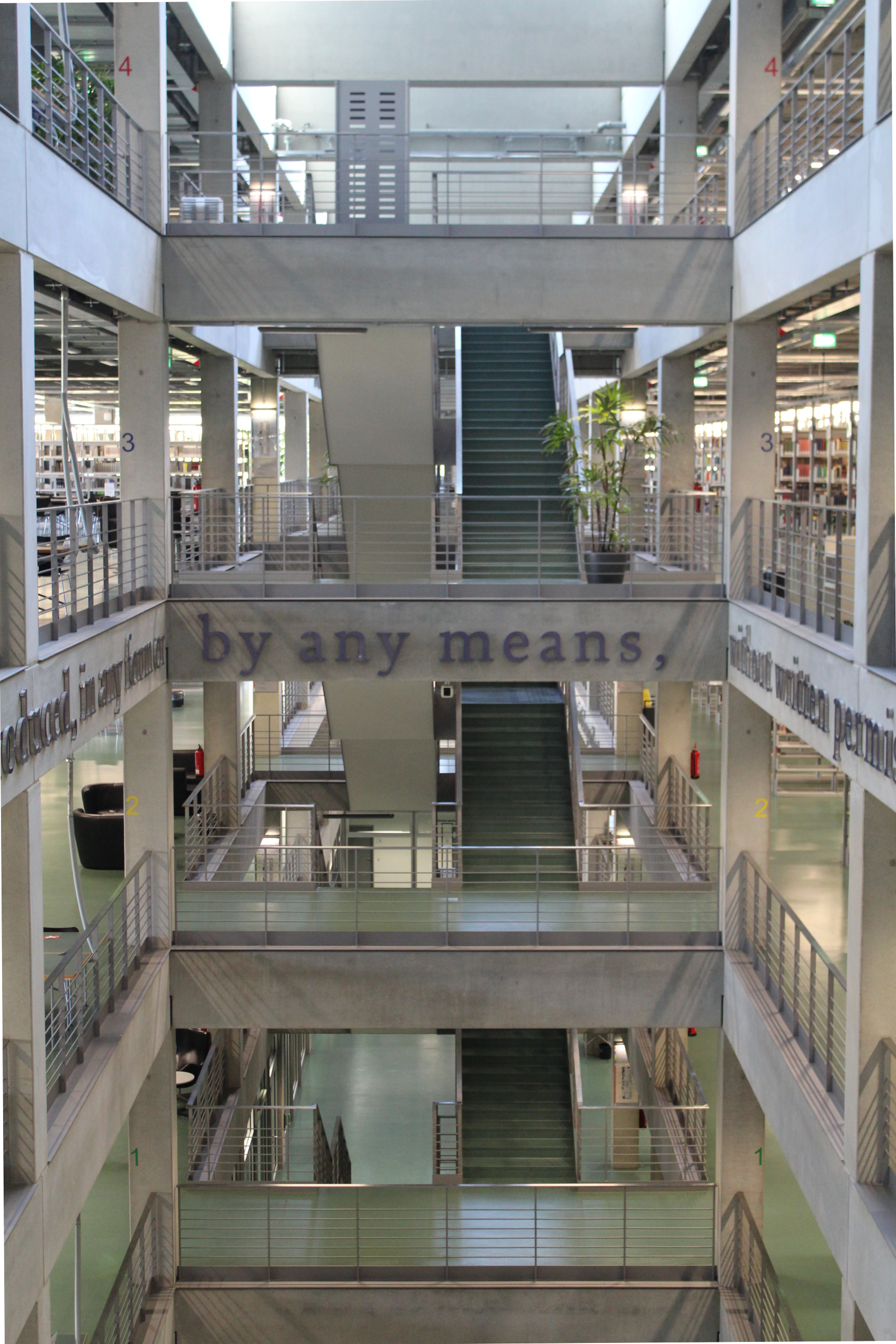 Atrium of the university library of TU Berlin.